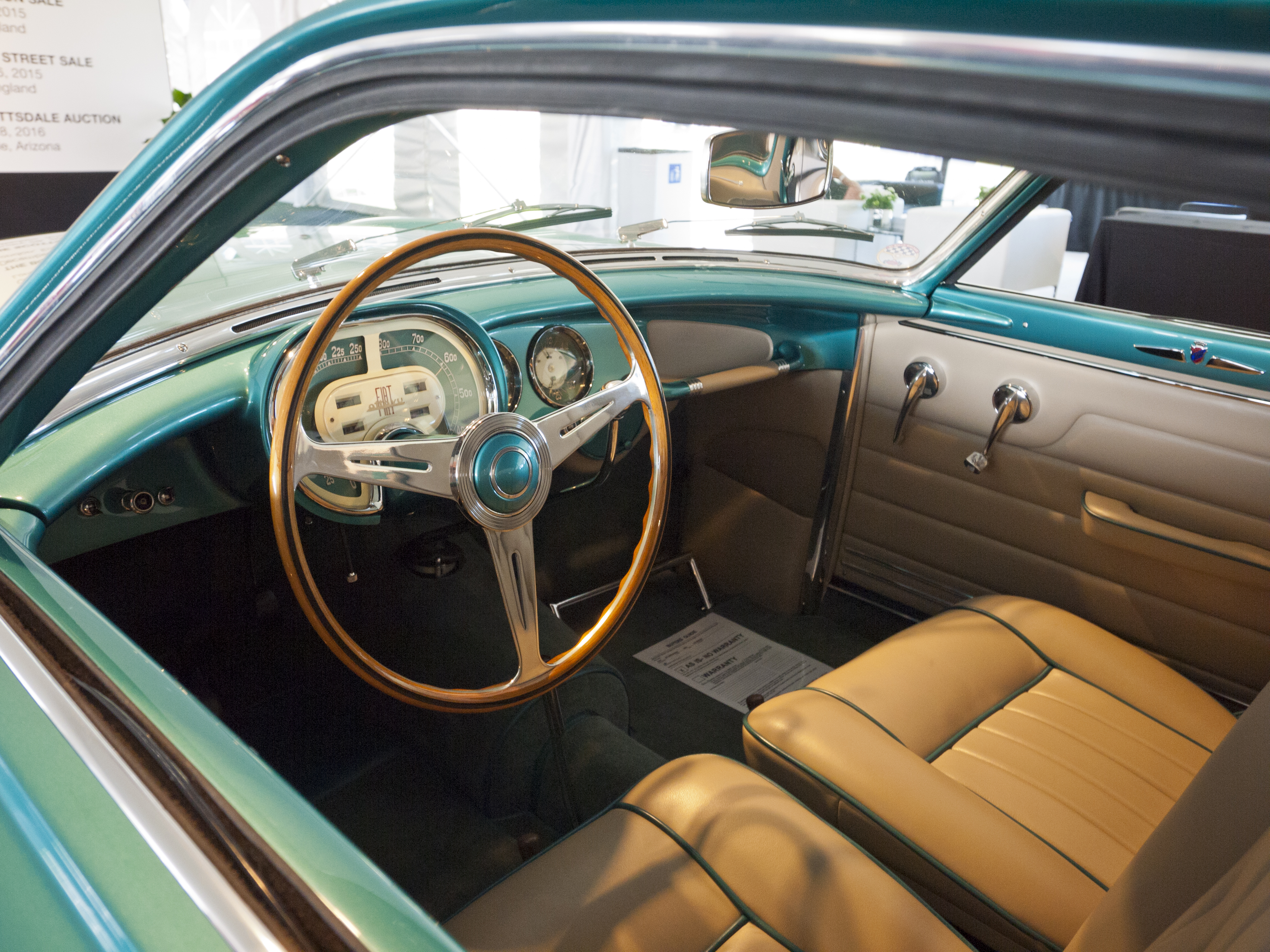 Fiat 8V Supersonic at the Bonhams Quail Lodge Auction in Carmel-by-the-Sea, August 2015.